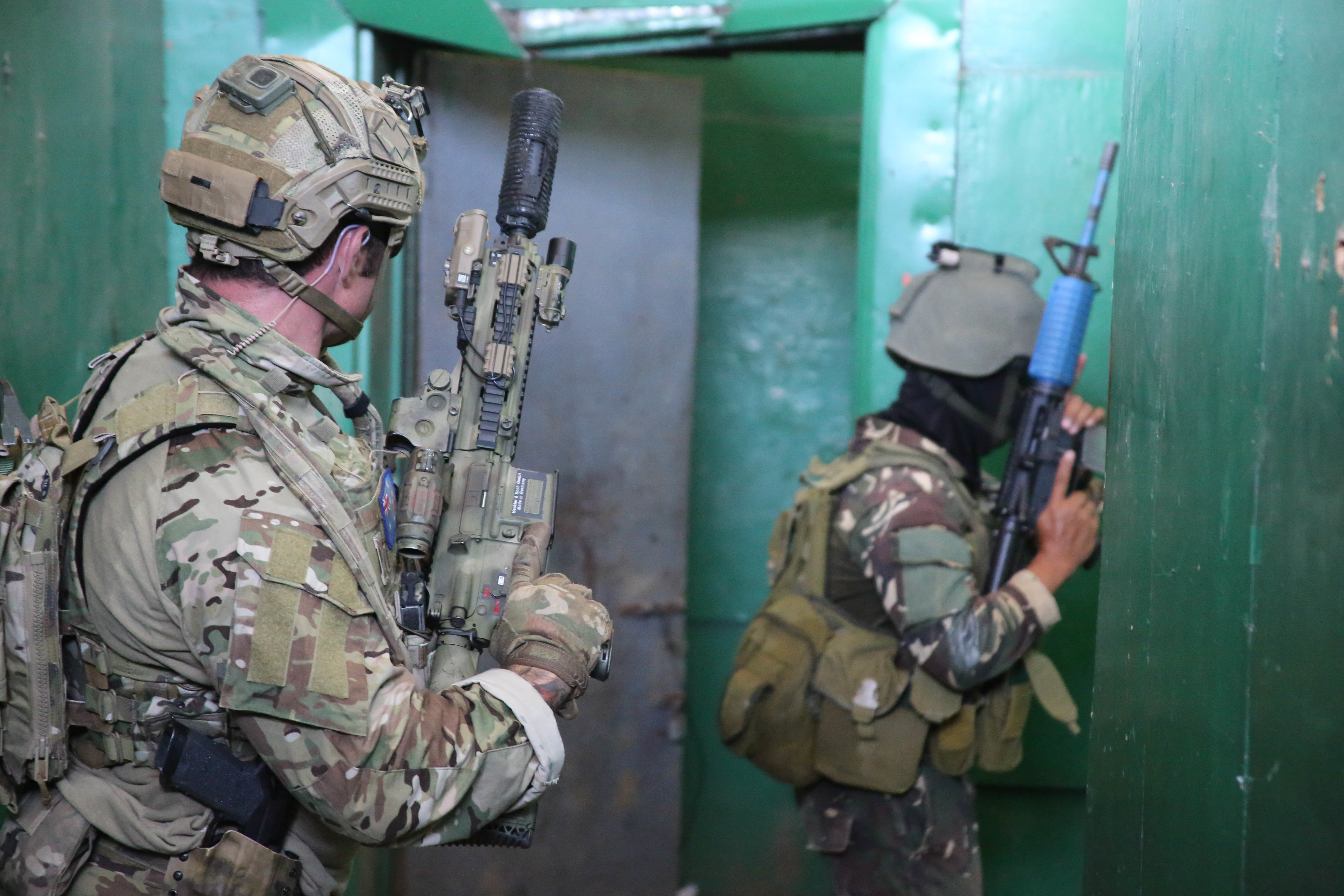 (May 12, 2017) An Armed Forces of the Philippines Joint Special Operations Group soldier and an Australian 2nd Commando Regiment soldier, clear a room during close quarters battle training in support of Balikatan 2017 at Fort Magsaysay in Santa Rosa, Nueva Ecija, Philippines. By training together, the Philippine, Australian and U.S. military build upon shared tactics, techniques, and procedures that enhance readiness and response capabilities to emerging threats. Balikatan is an annual U.S.-Philippine bilateral military exercise focused on a variety of missions including humanitarian and disaster relief, counter-terrorism, and other combined military operations. Note: The author identified the soldier as U.S. Army Special Forces. The soldier is wearing an Australian flag patch on the camouflage uniform and the Crye Precision AirFrame helmet has a double diamond patch of the 2nd Commando Regiment.